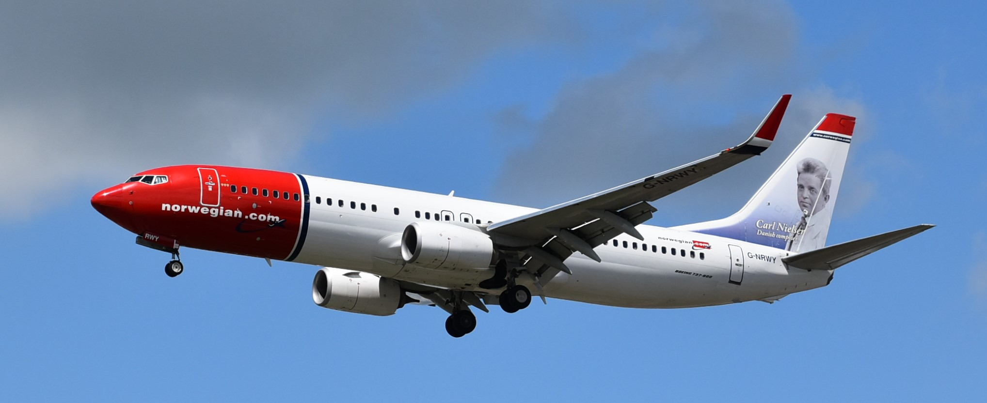 Boeing 737/8 of Norwegian Air UK with tail depicting "Carl Nielsen Danish composer," on final approach to rwy.26L at London Gatwick-LGW, 15/06/17.